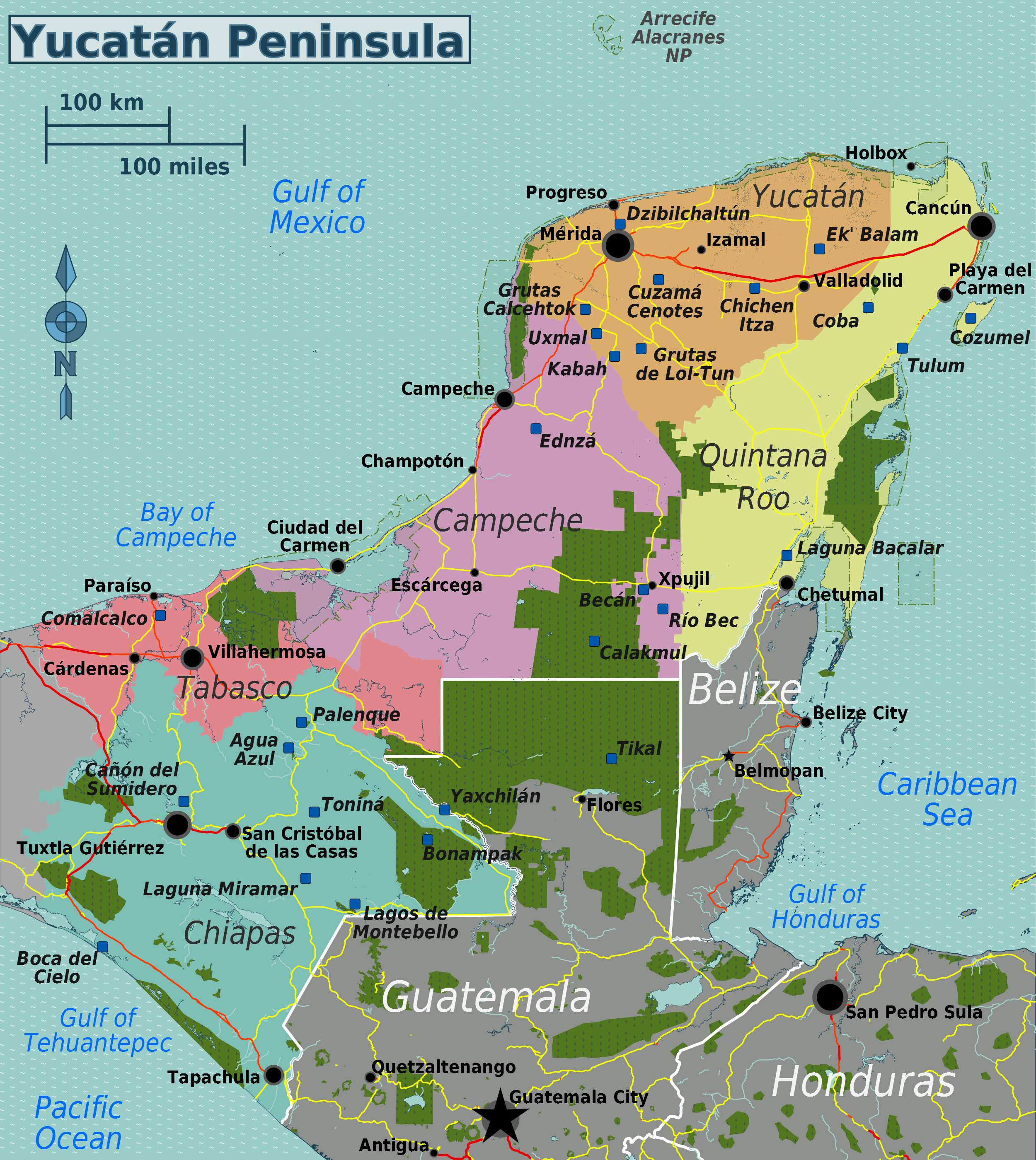 Travel map of the Yucatán Peninsula